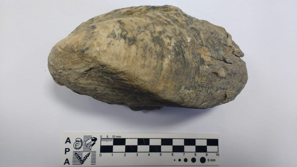 Myoconcha transatlántica's fossil, found in Agrio's Formation